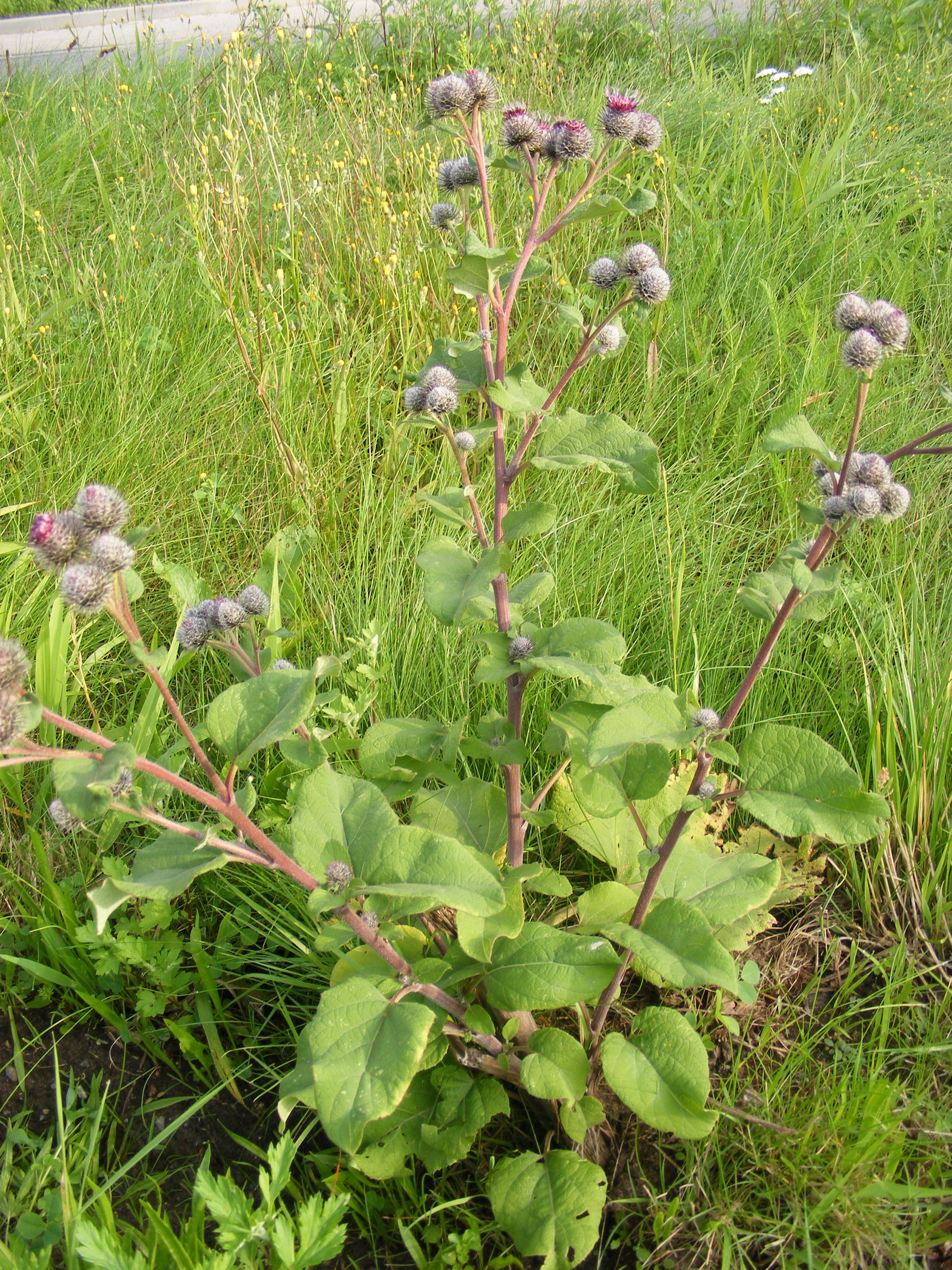 This photo shows Arctium tomentosum The plant as a whole